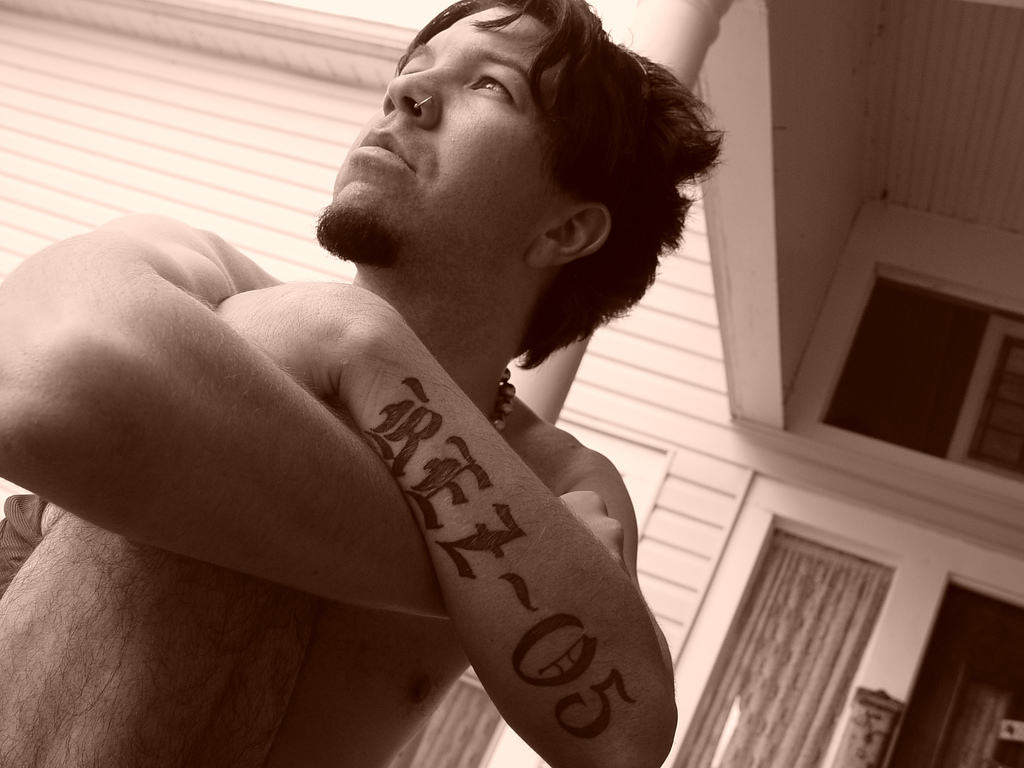 My best friend. Bobby Reeves of Adema